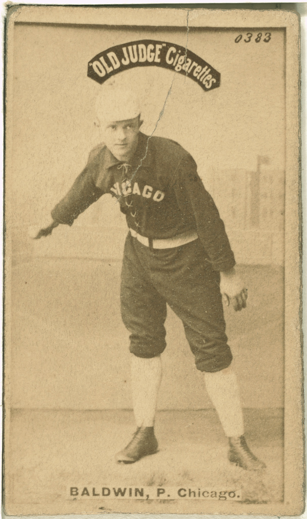 Title: Mark Baldwin, Chicago White Stockings, baseball card portrait Abstract/medium: 1 photographic print : albumen.